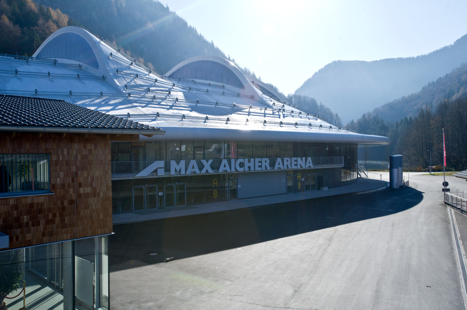 @Inzell in Bayern